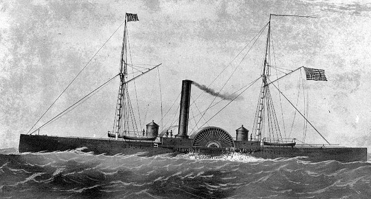 Cropped picture of the only known lithograph of the USS Eutaw. Original located at: Lithograph published by Endicott & Co., New York, circa 1865. This image was used in Endicott & Co. prints to represent many, if not all, of the Sassacus class "double-ender" gunboats.